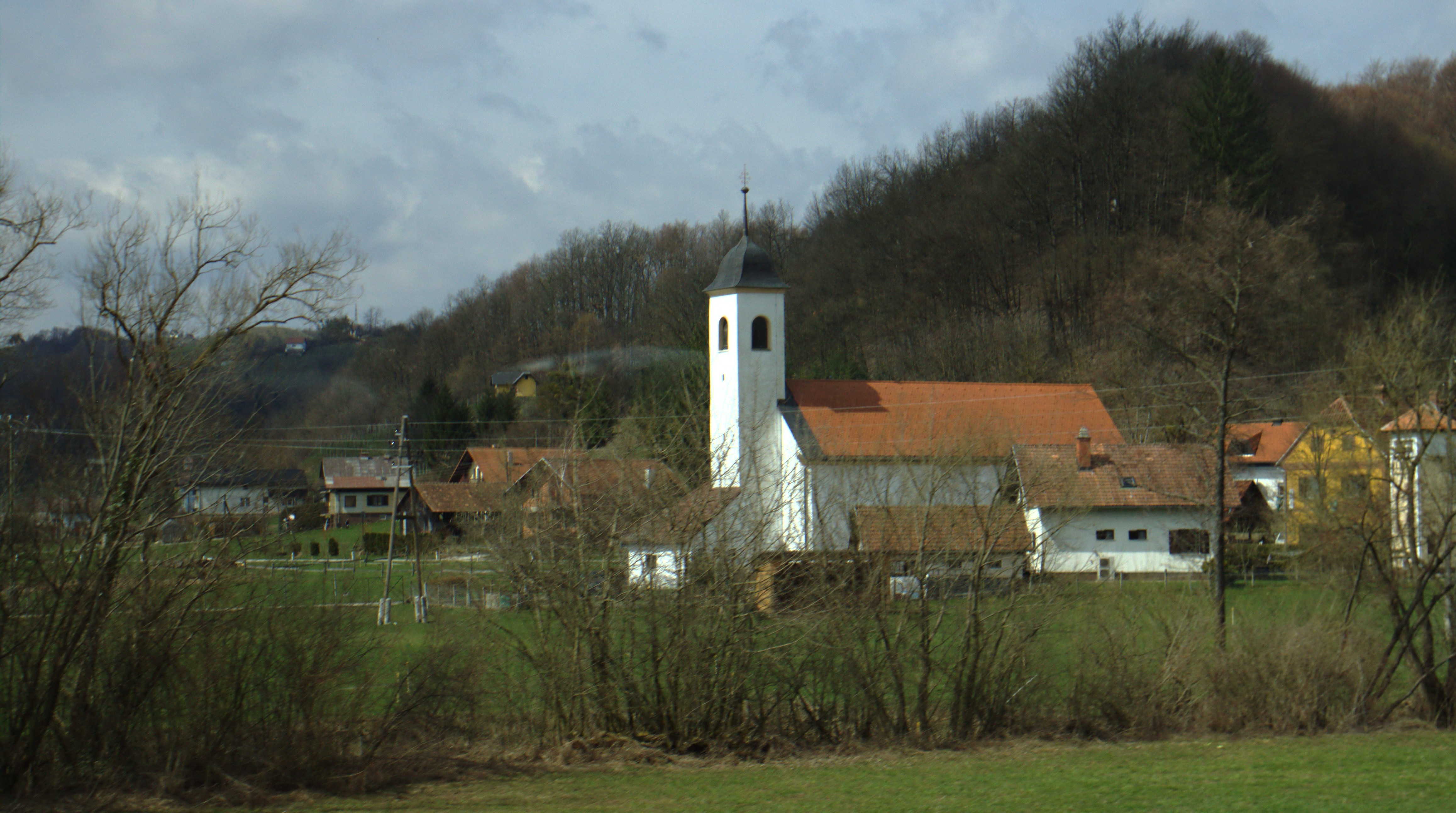 View of the church in the village of Zakl (part of the Podlehnik municipality), Slovenia